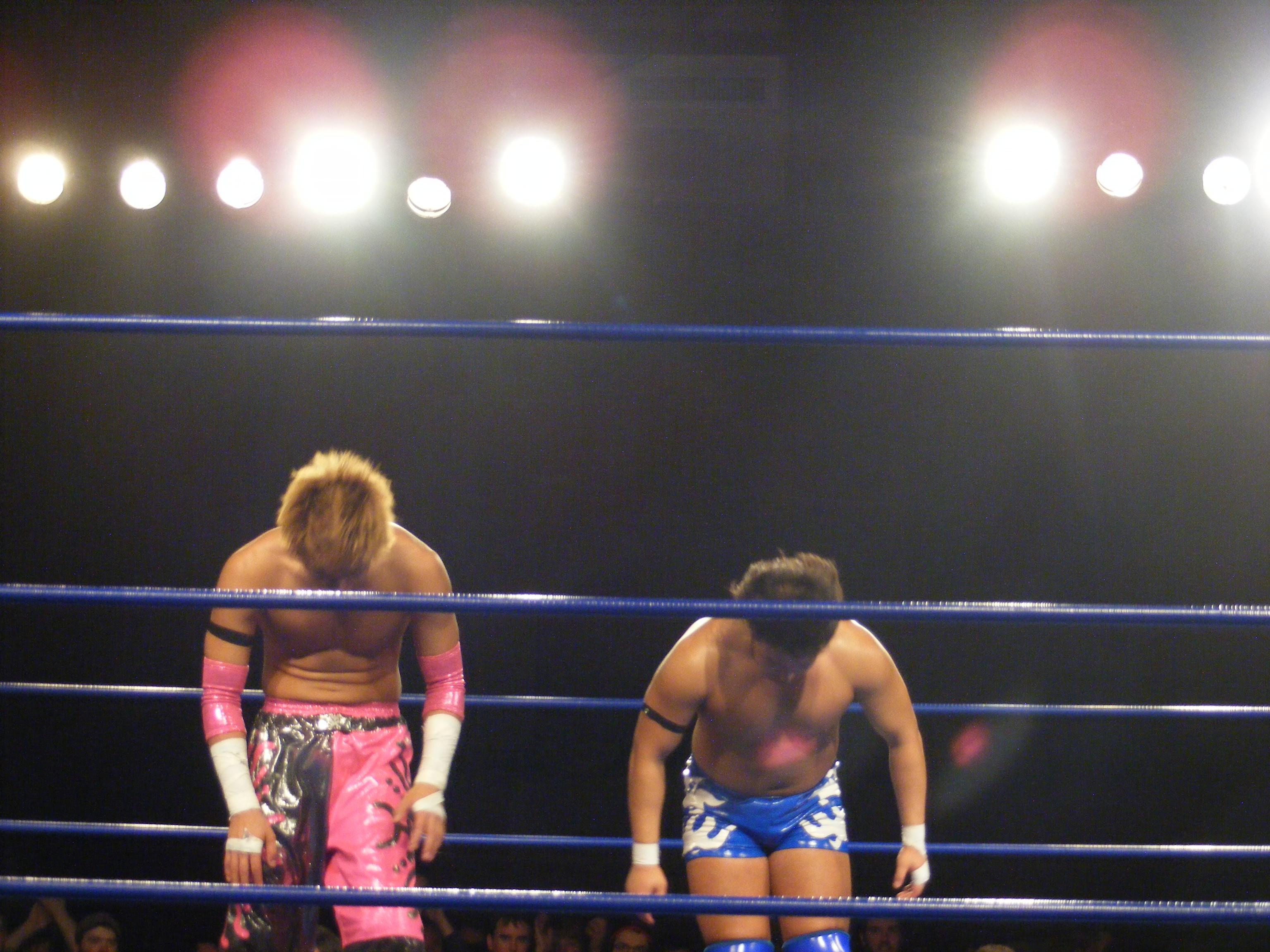 Professional wrestlers Atsushi Kotoge and Daisuke Harada thanking the crowd after a match at Chikara King of Trios 2010.